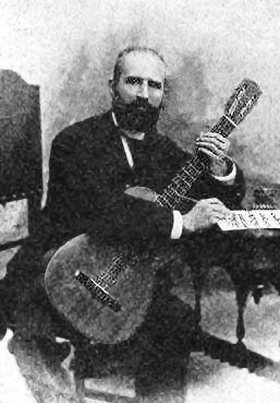 Josep Ferrer i Esteve (Girona, 13 March 1835 - Barcelona, 7 March 1916), Catalan guitarist and composer